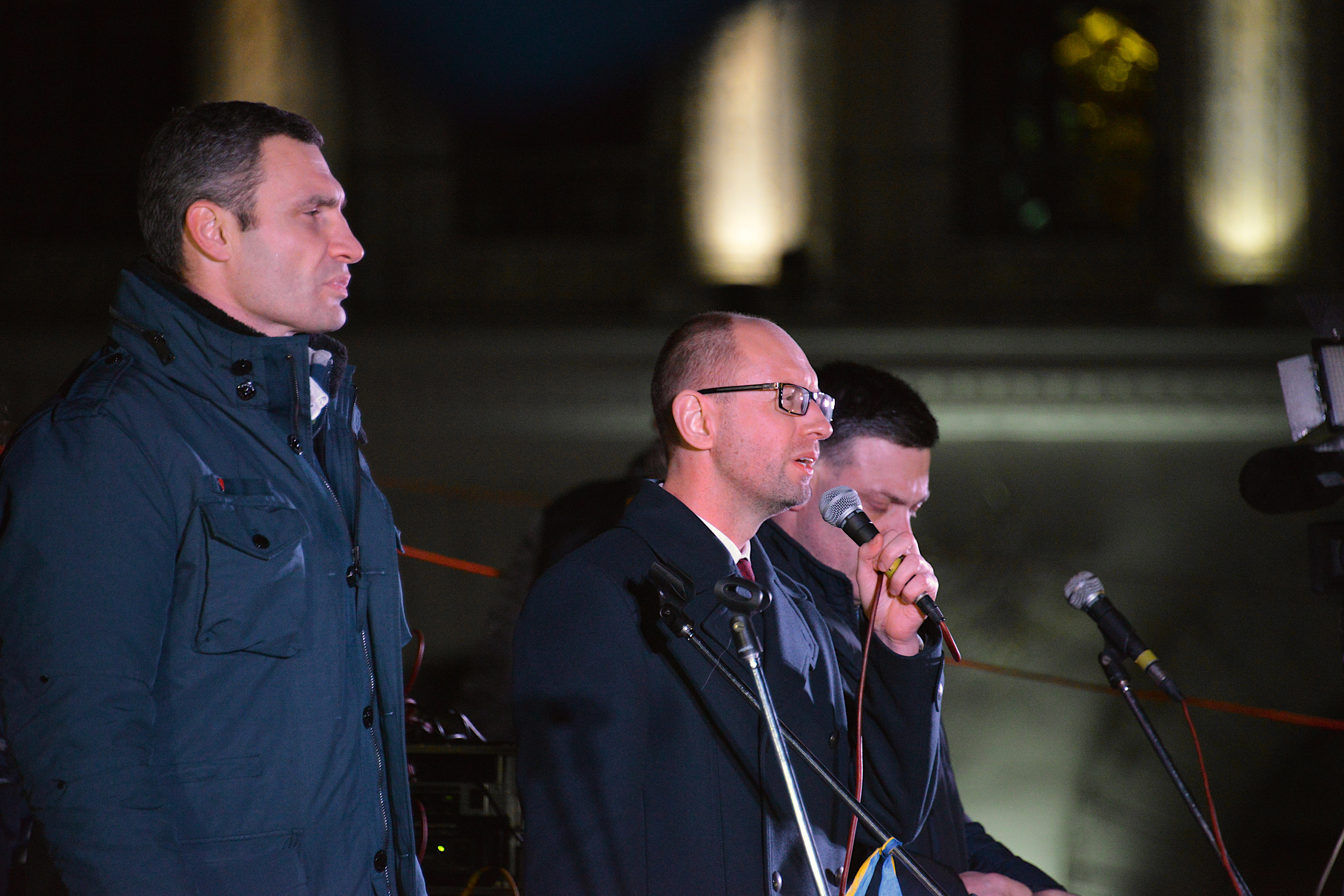 The last day of Euromaidan on Friday